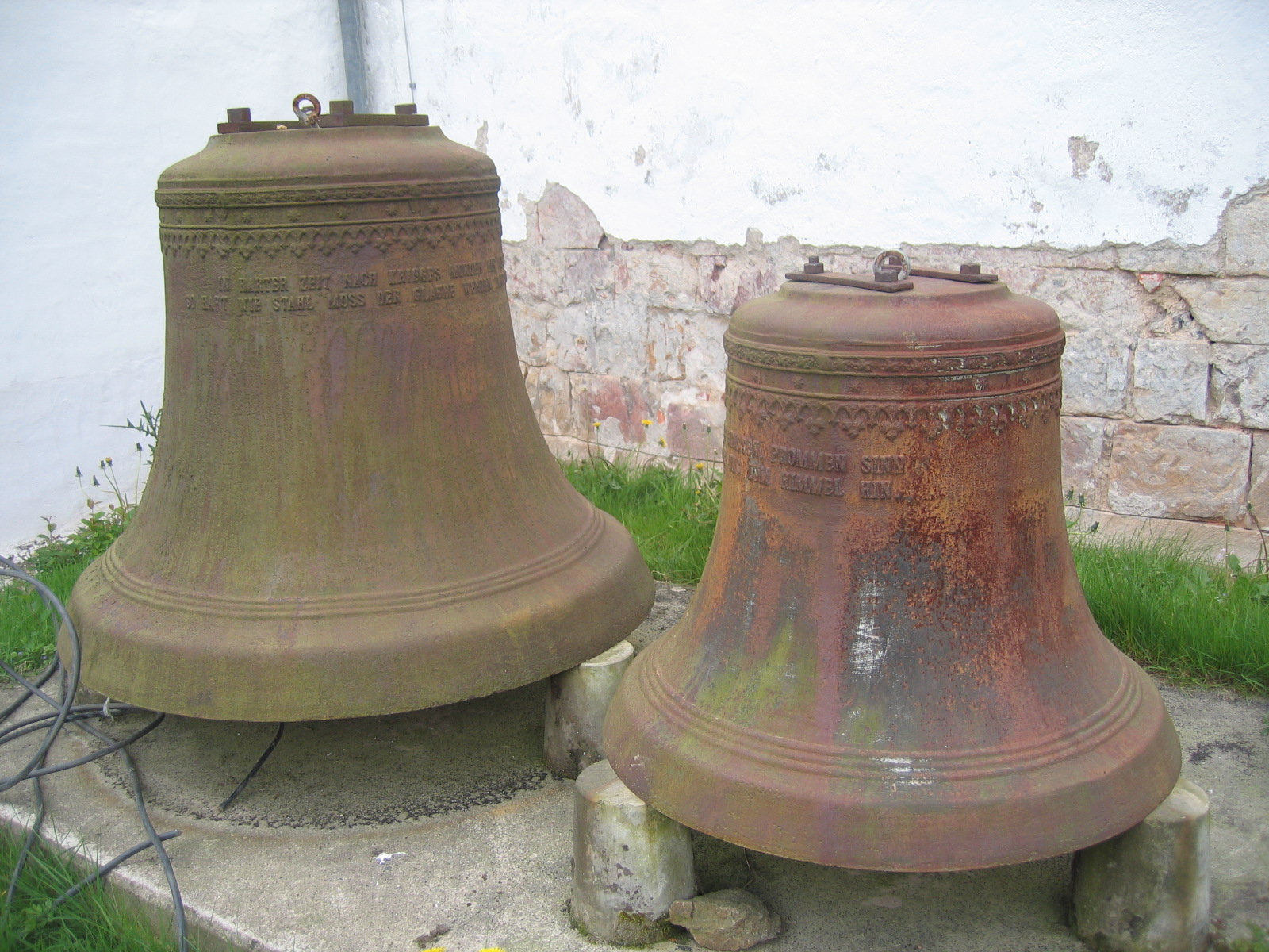 Bells at St. Ulricus church in Preußisch Oldendorf, District of Minden-Lübbecke, North Rhine-Westphalia, Germany.